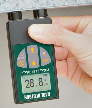 A measuring device for layer thickness